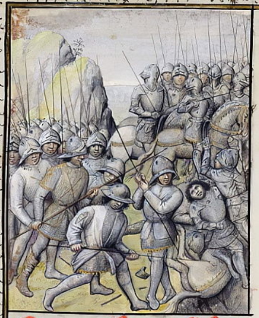 Ms 659 f.137 r. The Flemish defeat the French Army at the Battle of the Golden Spurs near Courtrai in 1302